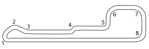 Basic outline of the Sanair road circuit with corner numbers.